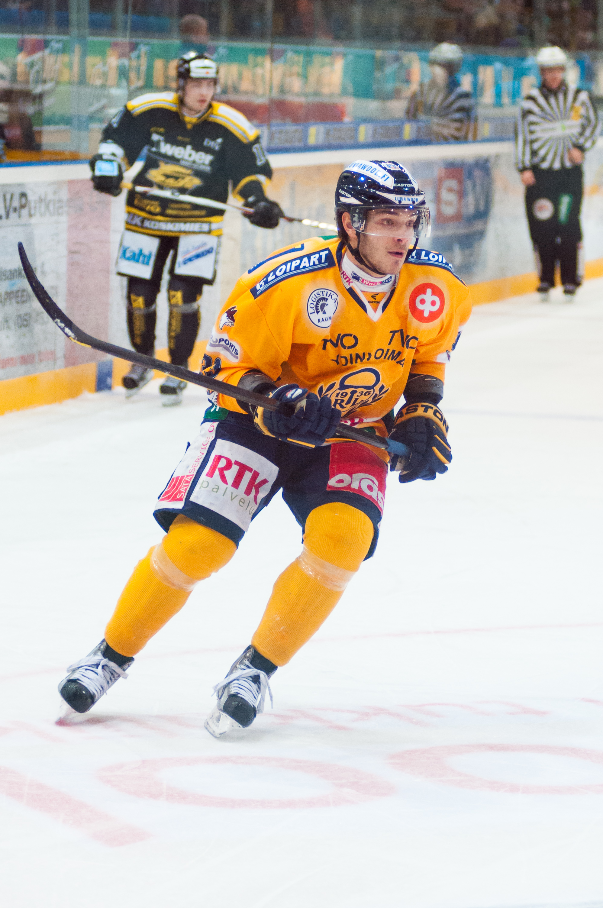 French ice hockey left winger Charles Bertrand playing for Rauman Lukko against SaiPa Lappeenranta in Lappeenranta, Finland.